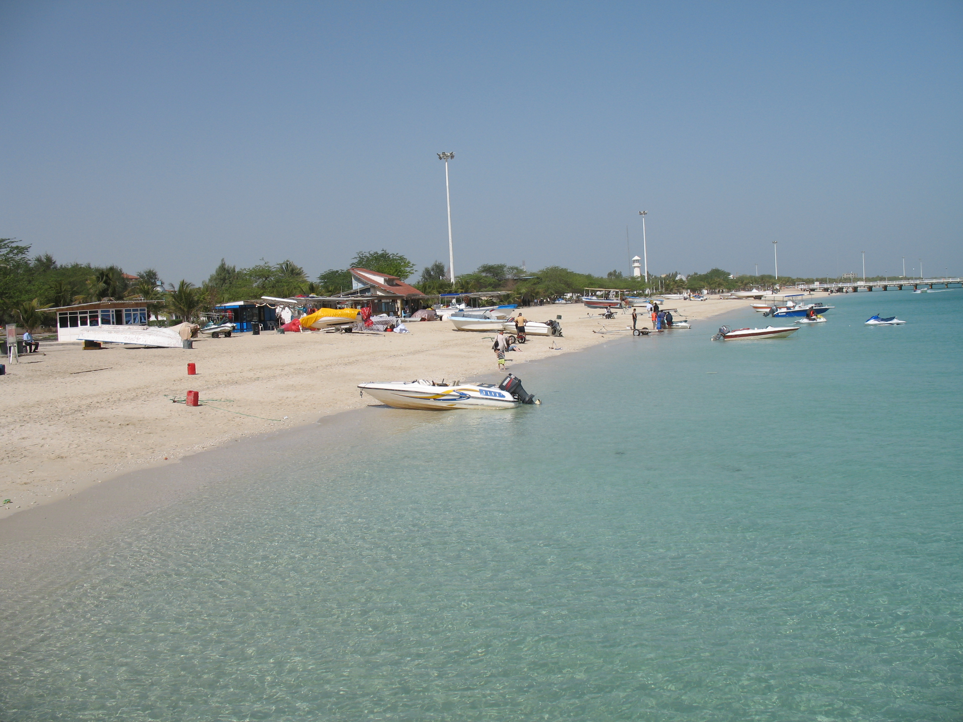 Kish Island Iran